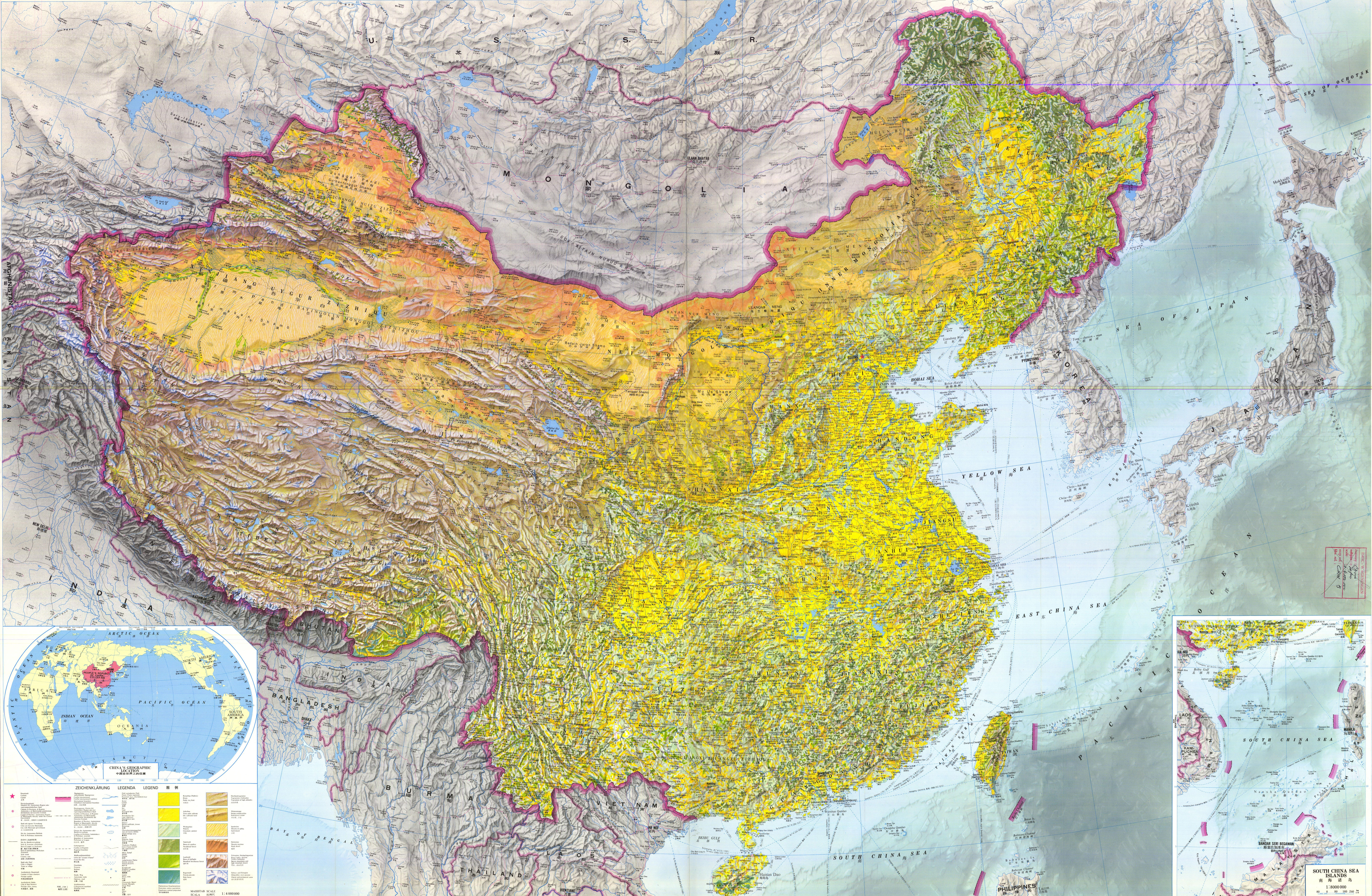 China's Geographic Location (1984)